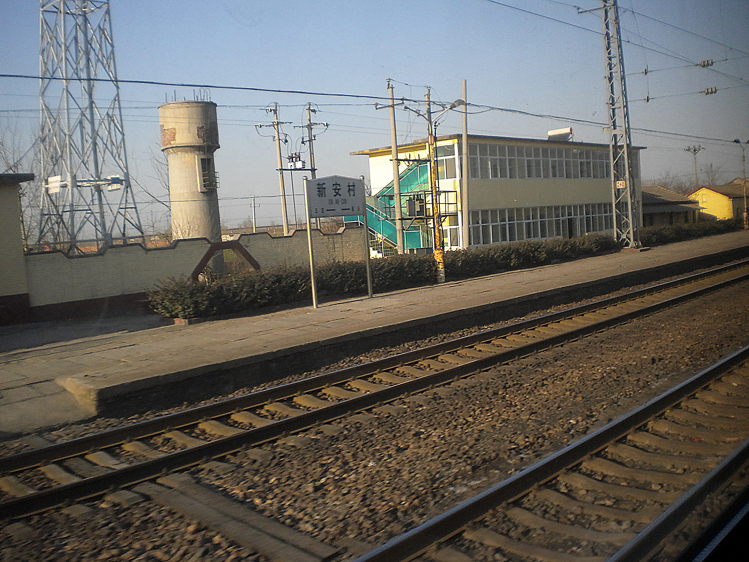 Taken from T61 Beijingxi-Kunming train. The train is approaching Shijiazhuang.